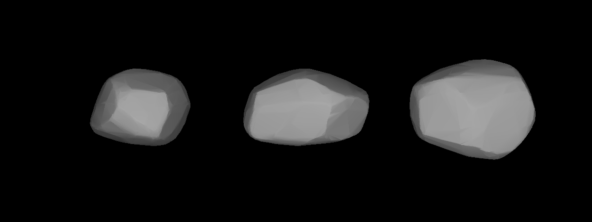 A three-dimensional model of 1436 Salonta that was computed using light curve inversion techniques.